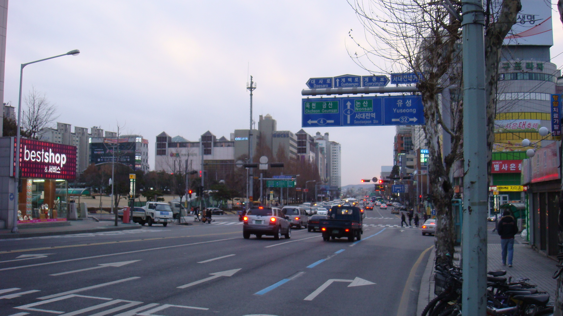 thanks to the Commonist